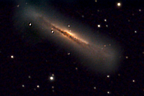 NGC 3628. I took this image in Kalkaska, MI USA March of 2007 with a Canon 350D